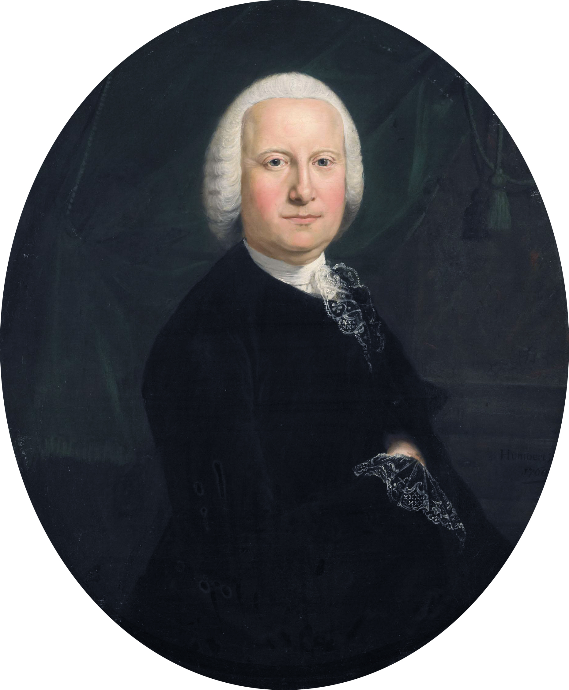 Part of the Rotterdam VOC series, a series of portraits of directors of the Rotterdam Chamber of the Dutch East India Company executed for the Nieuw Oost-Indisch Huis, built in 1698, on Boompjes in Rotterdam.